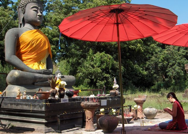 Budhist praying taken by user:KayEss My wife praying at a restored ancient Buddha near Chiang Mai. The Buddha is at the ruins of Wat Tard Khao and is part of the Wiang Kum Kam complex just south of the city.